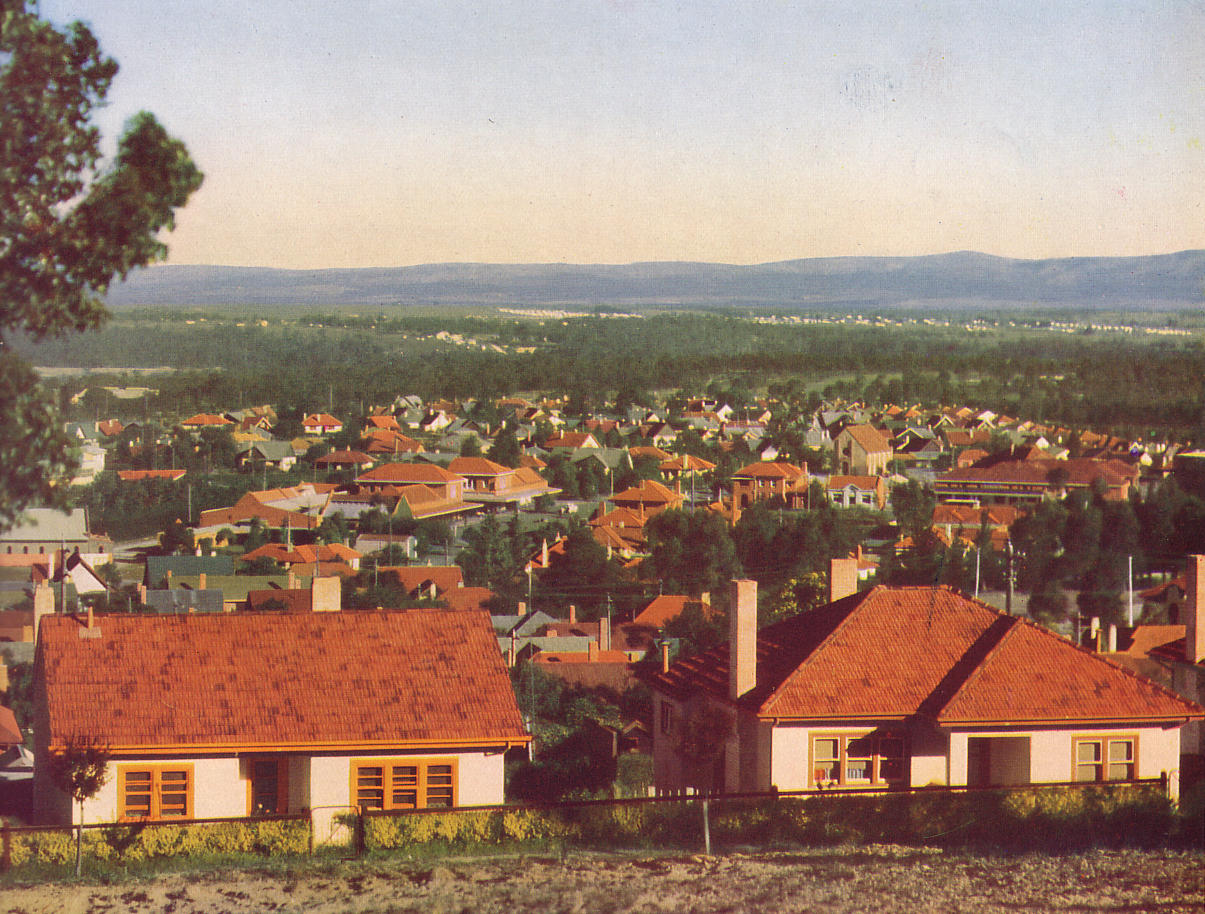 Overview of the town of Yallourn, Victoria, Australia. Taken in 1948 or thereabouts. Scanned from Gill, Herman (1949) Three Decades: The story of the State Electricity Commission of Victoria from its inception to December 1948, Hutchinson & Co.